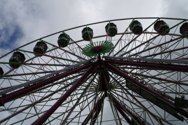 Ferris wheel, M&Ds Theme Park, Strathclyde Country Park In M&Ds Theme Park.